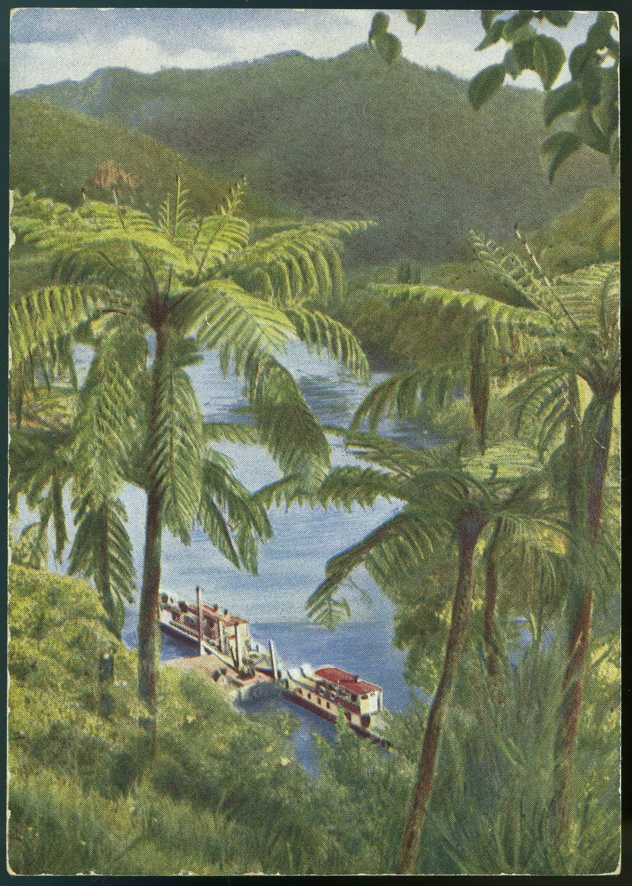 Shows a stretch of the Wanganui River, looking down at two boats moored at a small jetty. These two steamers tied up at the jetty at Pipiriki may have been the ‘Wairua’ and the 'Waiora’, two identical vessels brought to New Zealand in the first decade of the twentieth century. Or one may have been the twin-screw steamer 'Ohura’ which capsized in swollen rapids in 1940 with loss of three crew and the cattle it was carrying at the time. The Wanganui River is renowned for the beauty of its scenery, once being advertised as “the Rhine of New Zealand”. The image is based on a New Zealand Government Publicity photograph. This is No. 15 of a series of 30 cards issued with the larger packets of the brands manufactured by Godfrey Phillips Ltd., and associated companies". The NZ Government publicity photograph on which this postcard is based, is reproduced in a pamphlet inside spread at Eph-A-PARKS-Tongariro-1949-01-inside. Quantity: 1 colour photo-mechanical print(s) on postcard. Physical Description: Offset lithograph on postcard, 127 x 90 mm. Format: 1 colour photo-mechanical print(s) on postcard, Ephemera, Chromolithographs, Photolithographs, Postcards, Offset lithograph on postcard, 127 x 90 mm. Orientation: Vertical image.